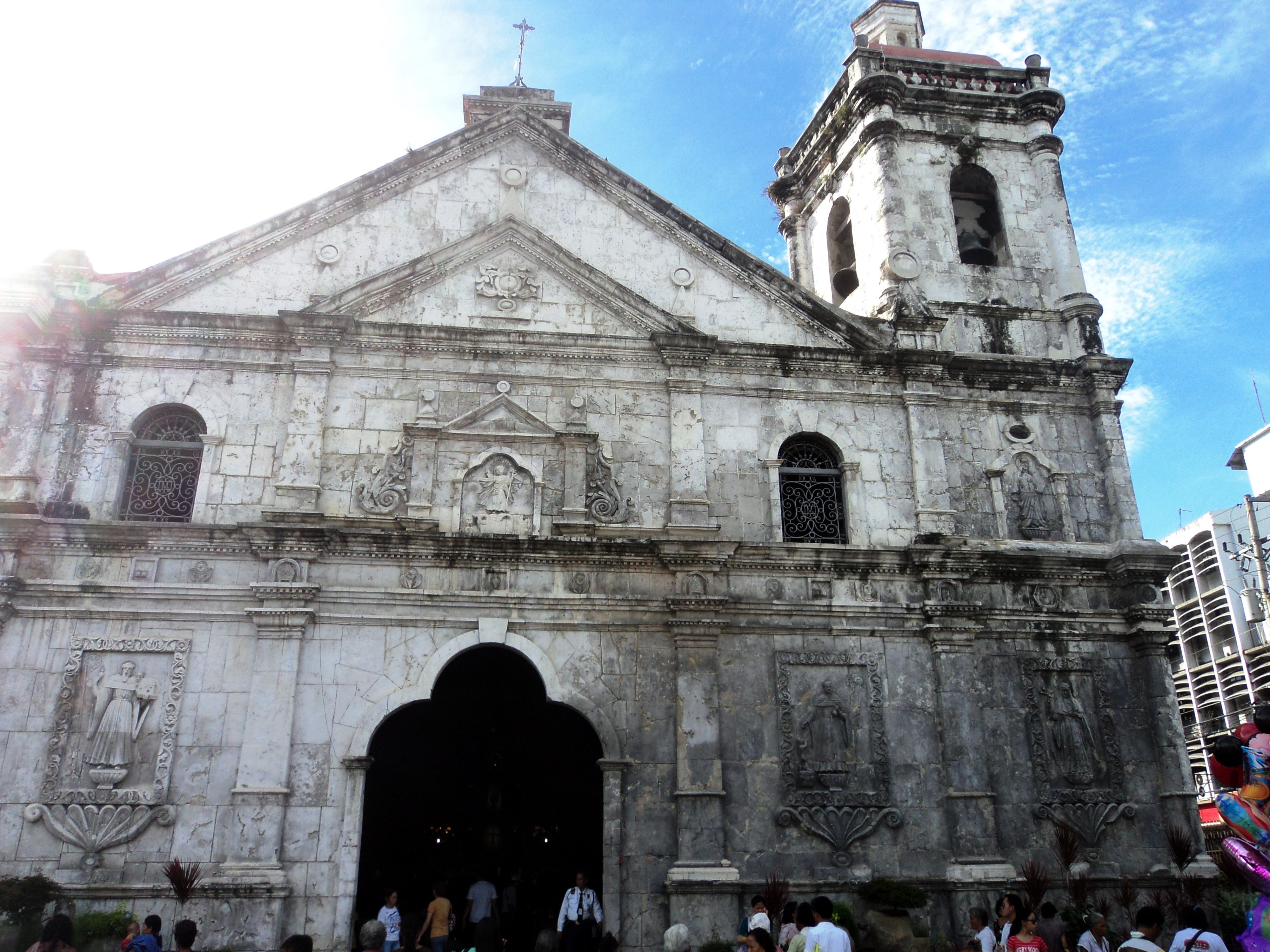 Facade of Santo Niño Church and Convent in Cebu City